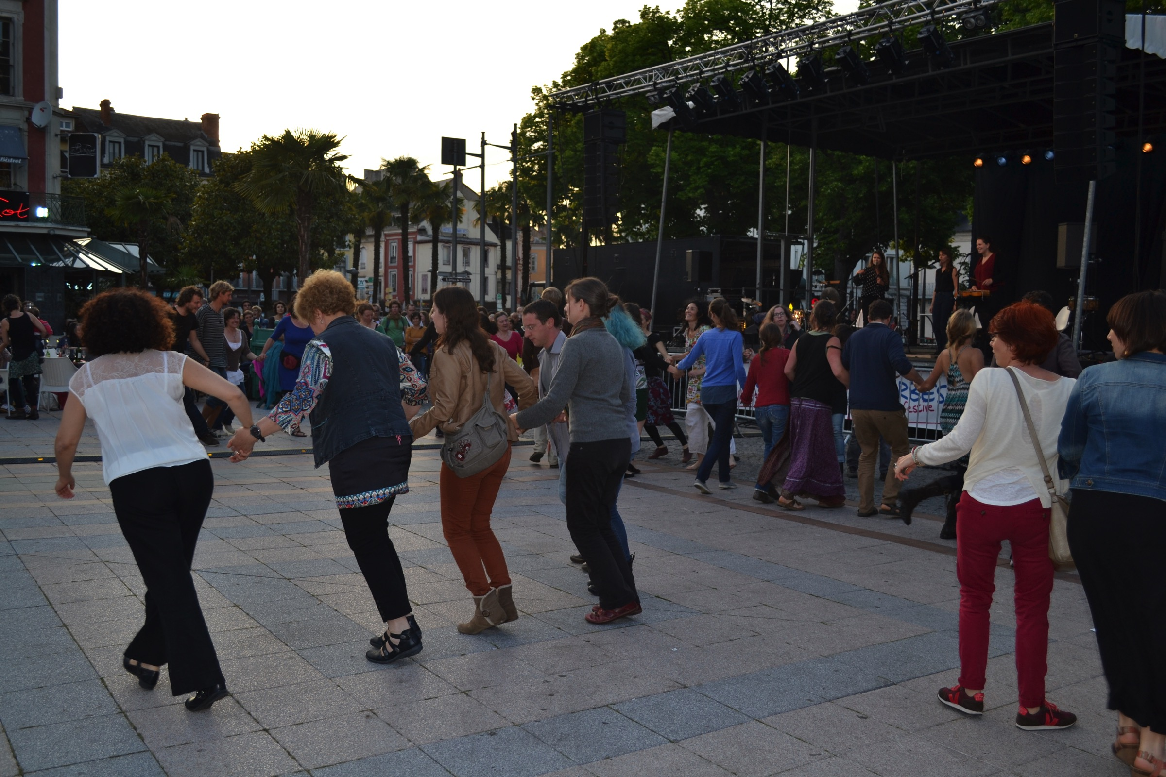 Cocanha, polyphonic band, during Tarba en Canta 2016 in Tarbes.